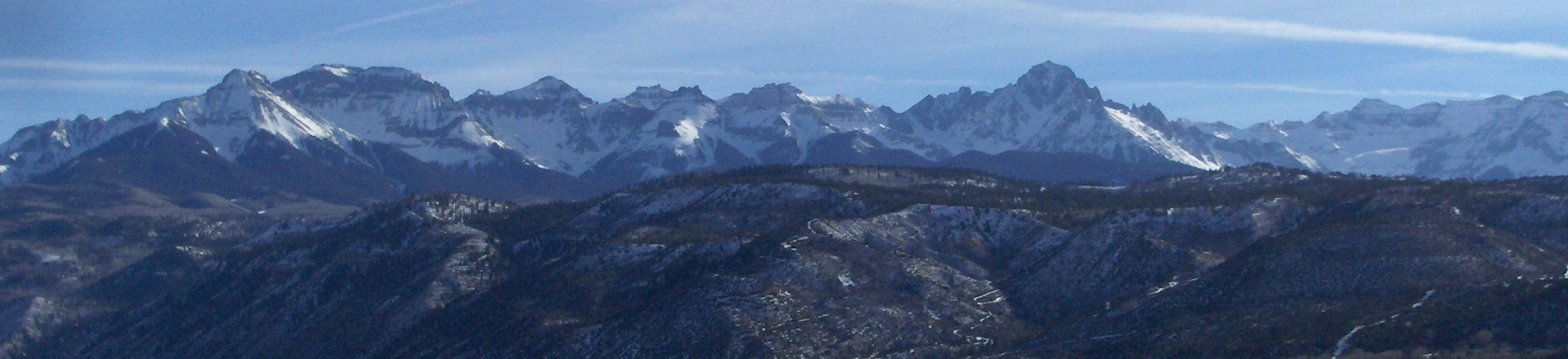 The San Juan Mountains as seen from Ridgway